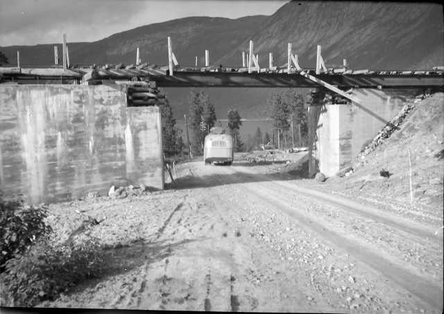 Polar Line at Hamarøy, Norway